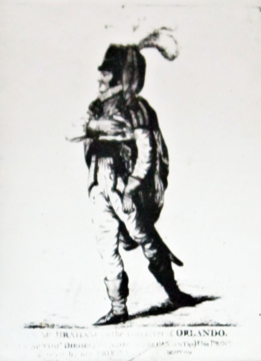 John Braham (1774-1858) Etching by Robert Dighton